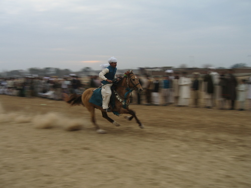 Ch Asif Hussain of Kantrili and his horse which went on to win first prize